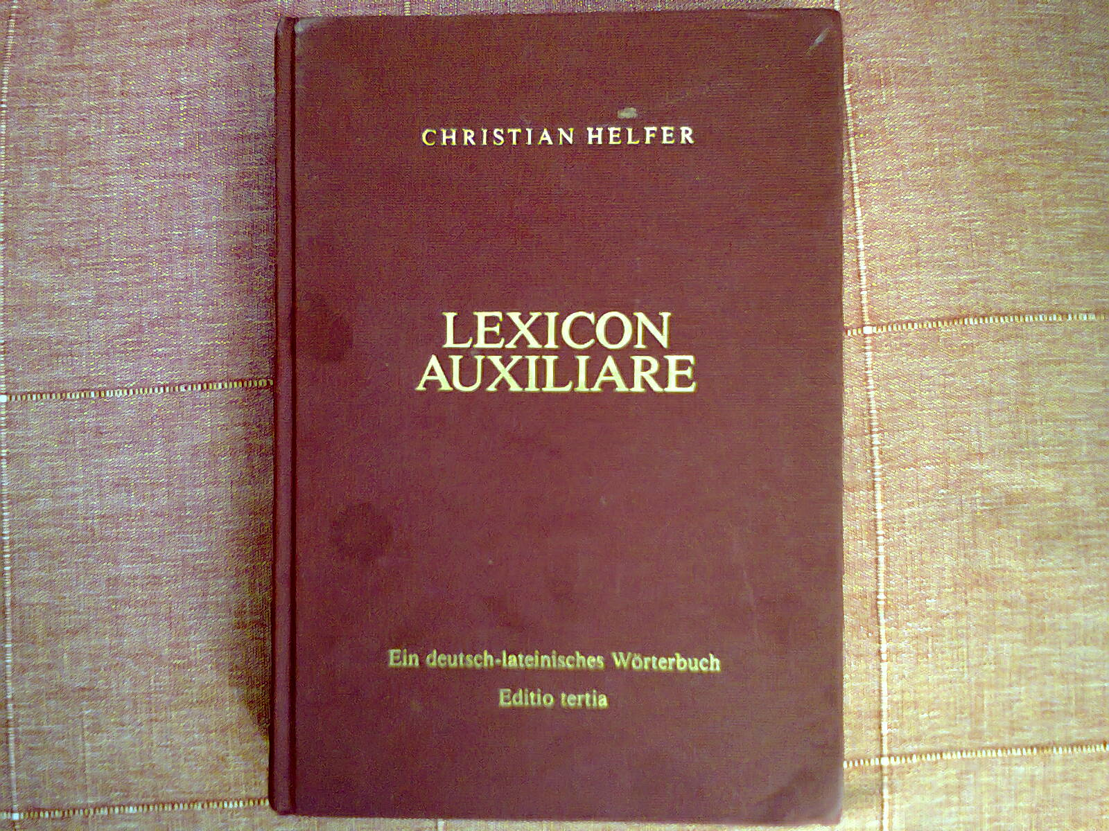 Christian Helfer, Lexicon auxiliare 1991, third edition